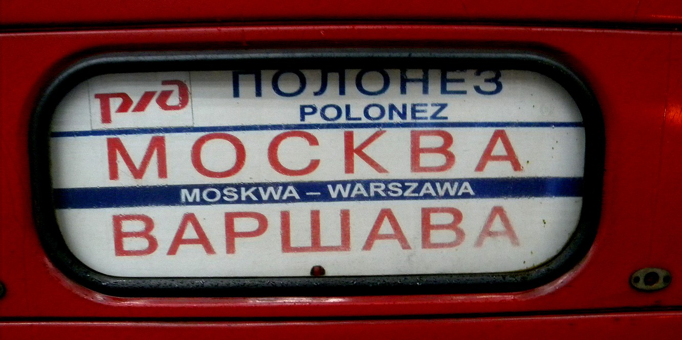 Information panel on the Warsaw-Moscow Train "Polonez" (Russian car)